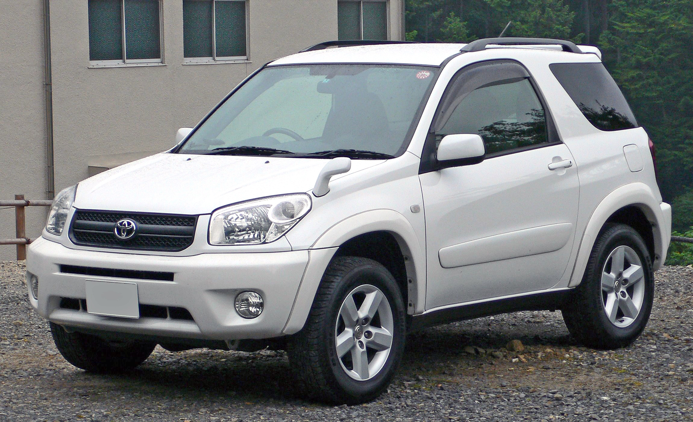 2nd Generation Toyota RAV4 (3 door) (2003 - 2005)